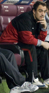 Dinamo Bucharest at 2009 Romanian Cup semifinal (CFR Cluj - Dinamo Bucuresti 2-1)